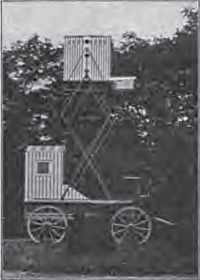 Combined mobile dovecote and darkroom, developed by Julius Neubronner for aerial photography using camera-bearing carrier pigeons, and presented in 1909 at exhibitions in Dresden and Frankfurt.